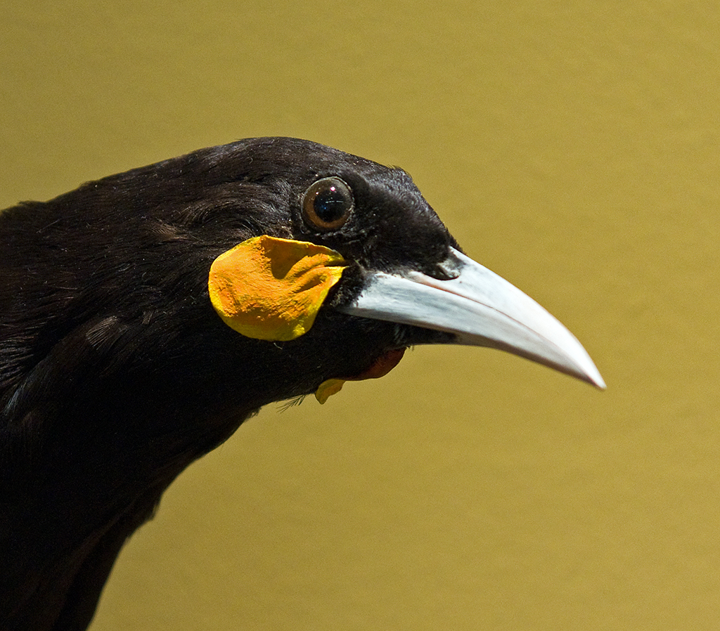 Male Huia. Photographed at the Delaware Museum of Natural History.